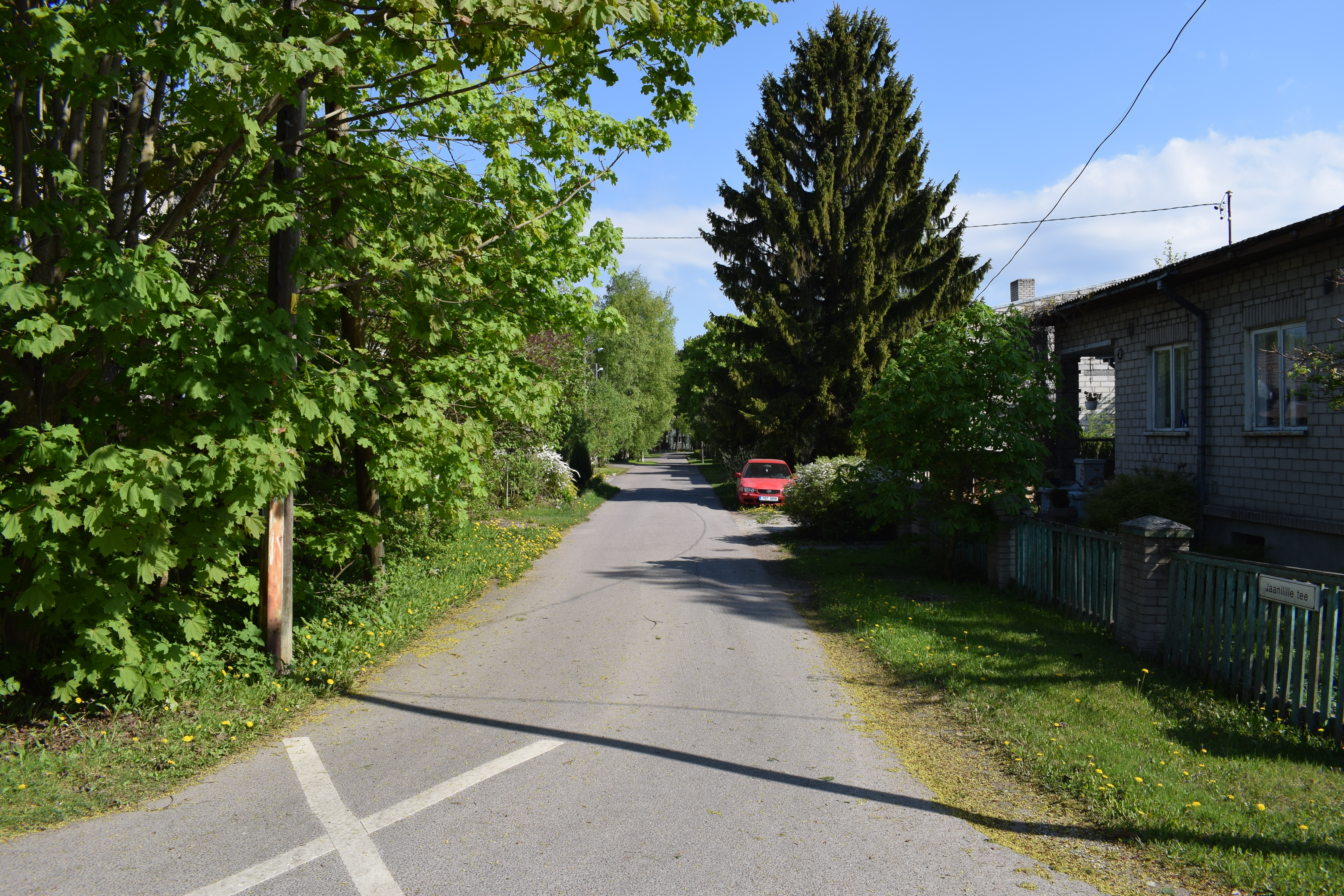 Jaanilille road